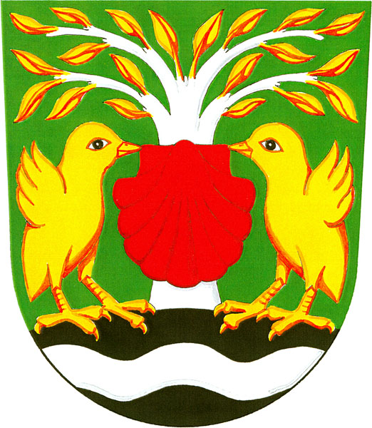 Municipal coat of arms of Tachlovice village, Prague-West District, Czech Republic.